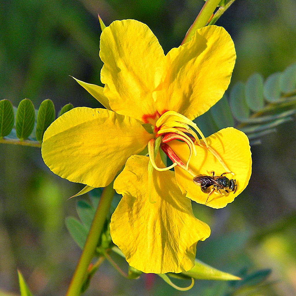 Chamaecrista fasciculata with a wee bee. Early morning at Sweetbay Natural Area, PB County, Florida. The entire area was in deep shade except for a ray of sunlight illuminating this one flower. The Partridge Pea is the host plant for several butterflies.